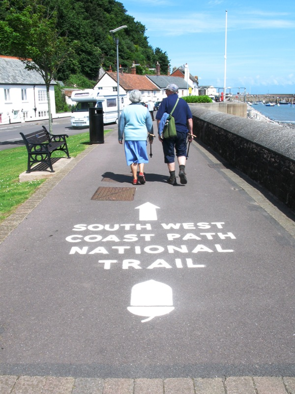 Two walkers at the start of the 630-mile South West Coast Path in Minehead, Somerset, England.